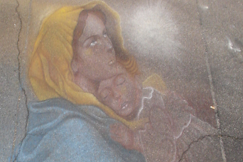 This painting is inspired by a painting by Roberto Ferruzzi (1854-1934).